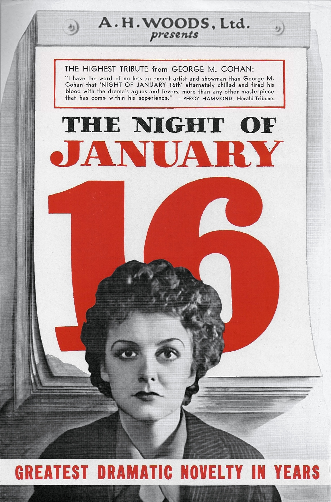 Front of a flyer advertising the Broadway production of Night of January 16th, a play written by Ayn Rand and produced by Al Woods.